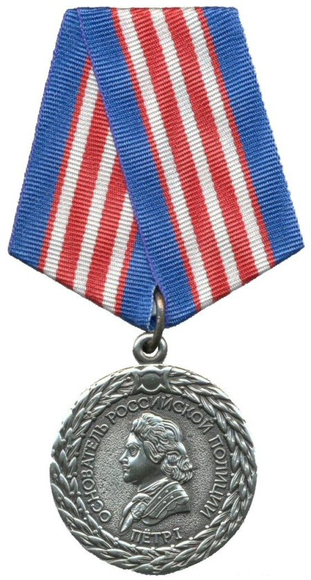 Medal "300 years of the Russian Police", commemorative award of the NVD of Russia